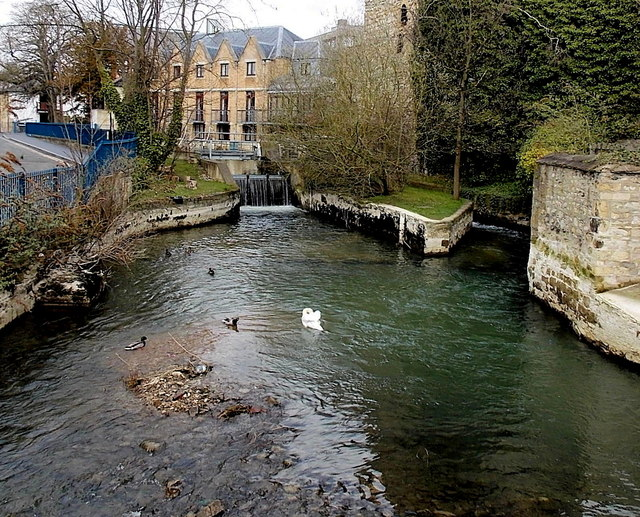 A swan viewed from Swan Bridge, Oxford